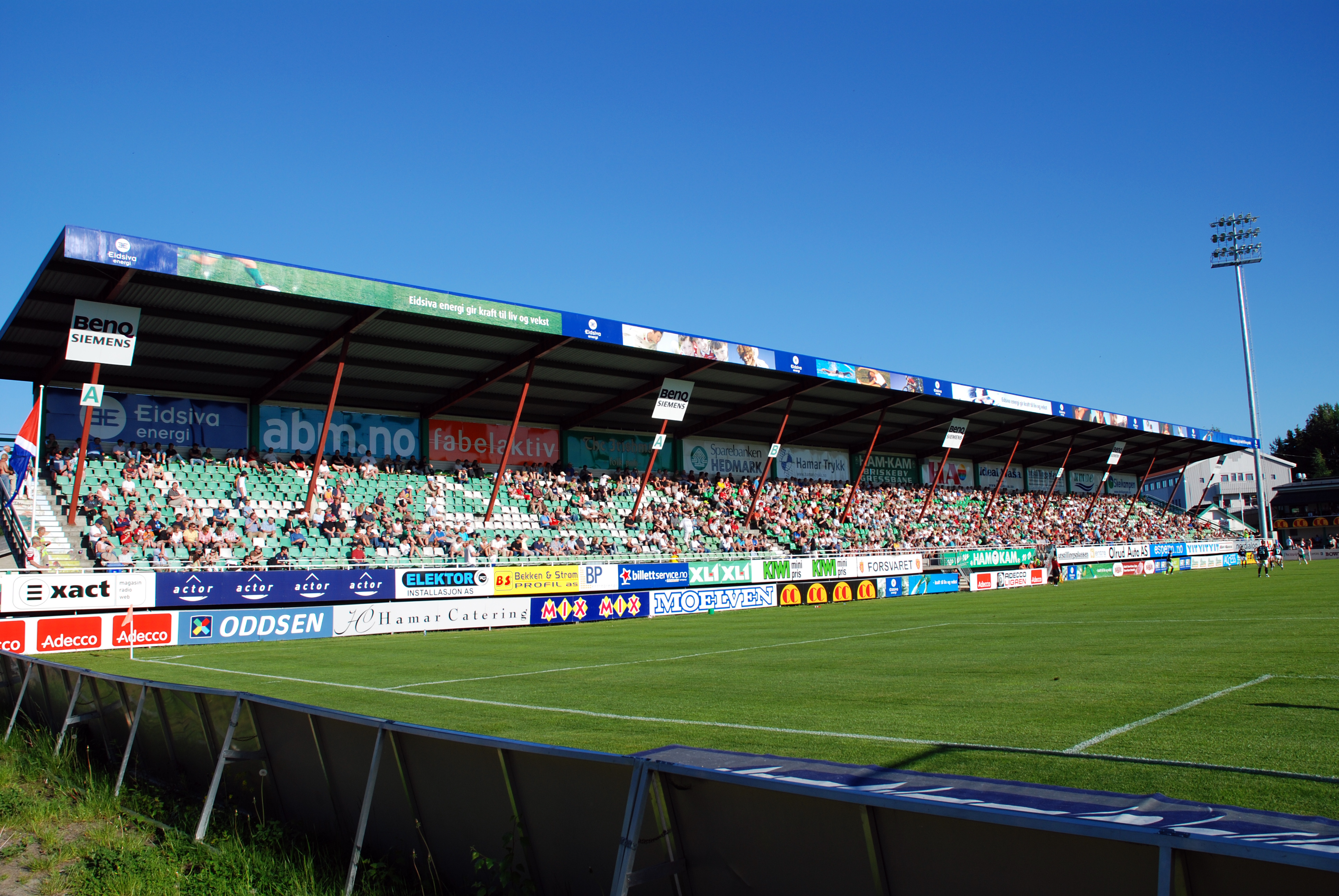 Briskeby gressbane, in Hamar, Hedmark, Norway.